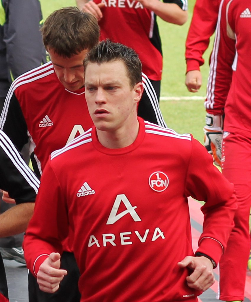 Hanno Balitsch, football player for German side 1. FC Nürnberg, 2011/12 season